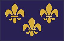 The French flag of the 1500s that flew over Fort Caroline